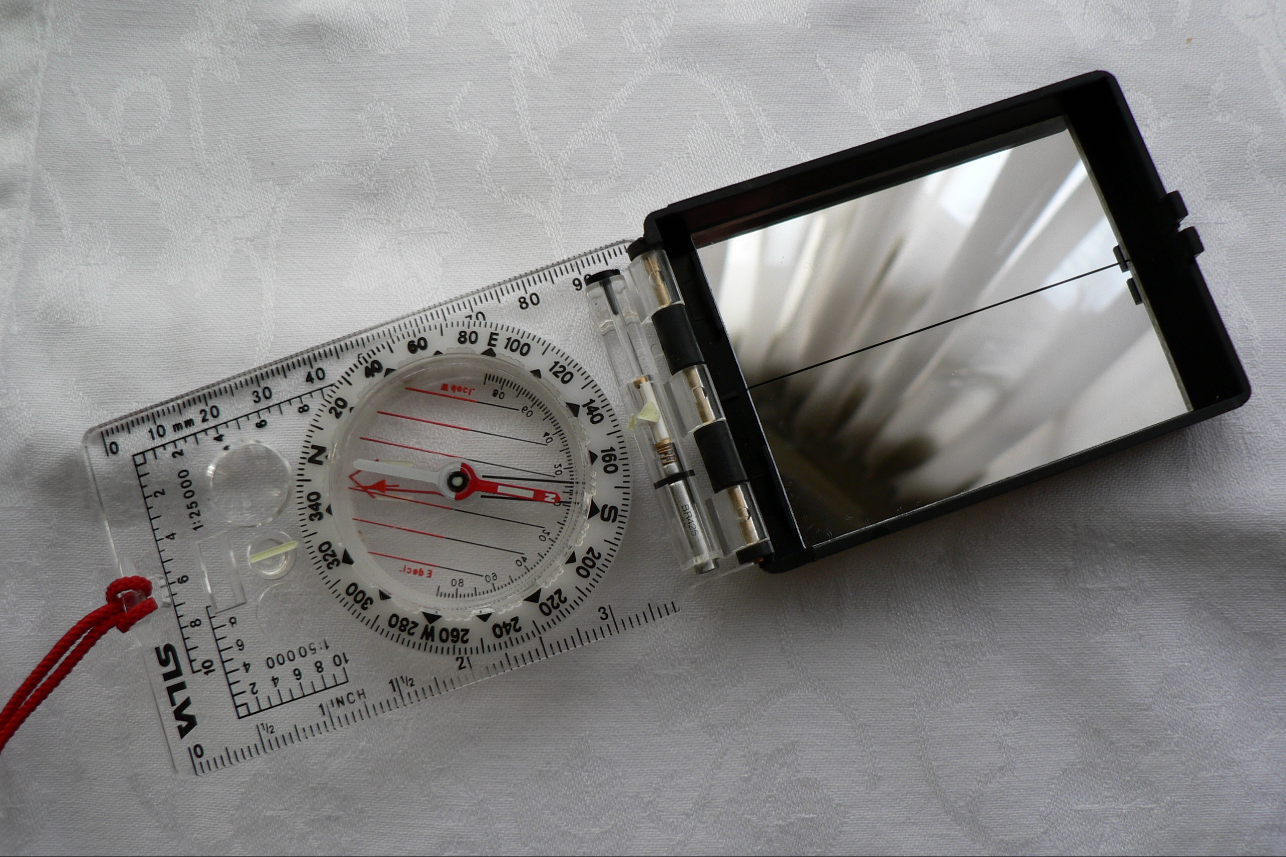 A silva sighting compass showing the baseplate, dial and sighting mirror. This model also includes a battery powered light in the mirror hinge.